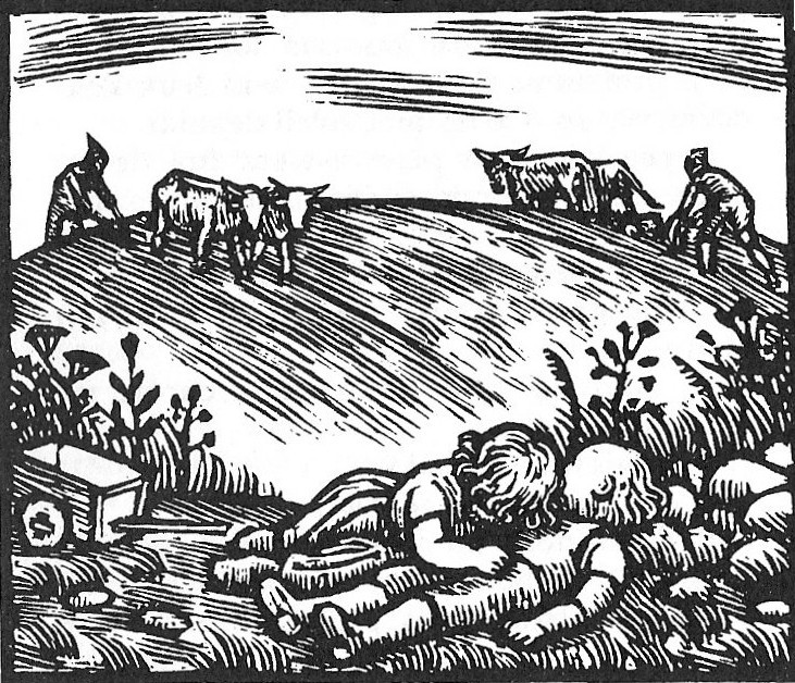 The Children Sali and Vrenchen